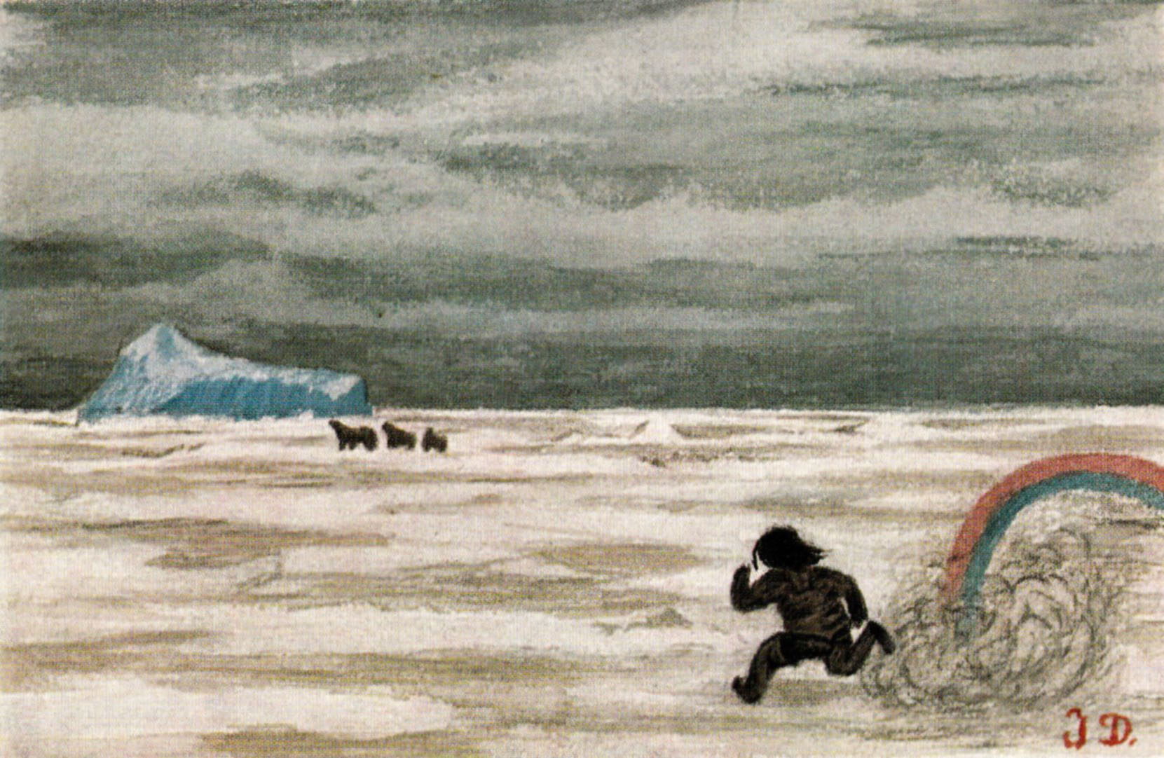 Jakob Danielsen - 07 Kaassassuk runs to bears